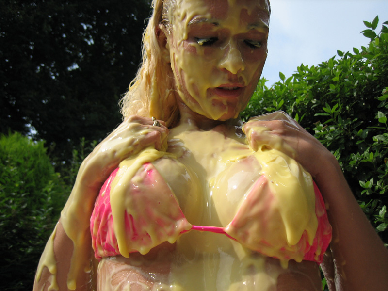 A woman wearing a pink bikini covered in custard.